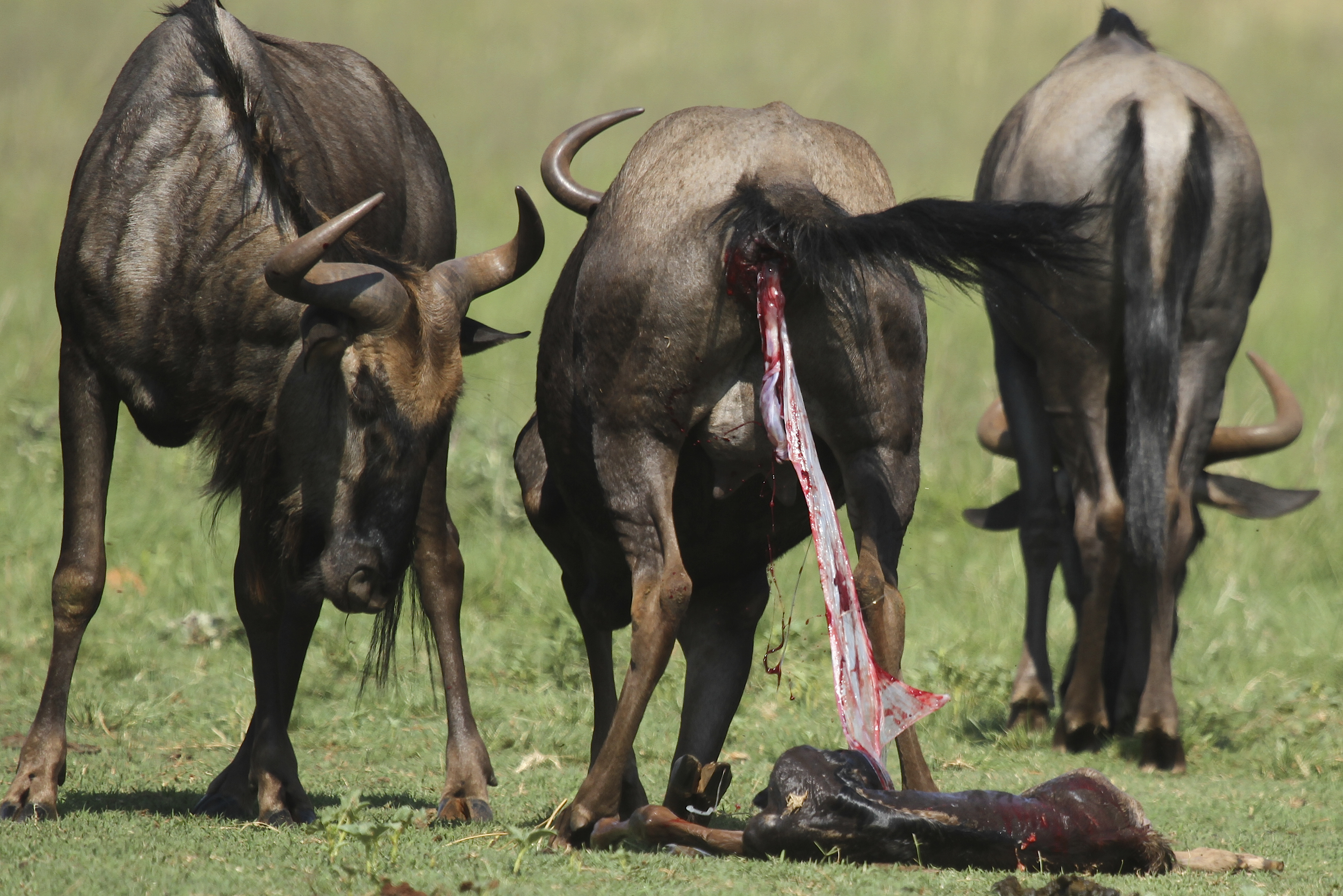 Blue Wildebeest giving birth to a stillborn calf at the Rhino and Lion Nature Reserve in Gauteng, South Africa